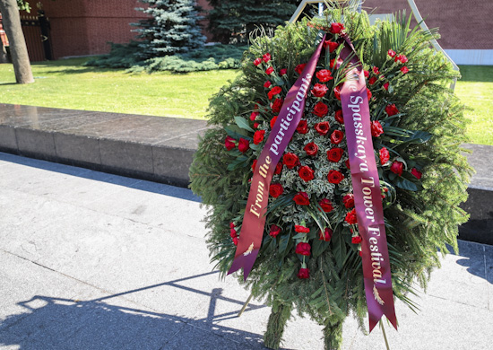 Преображенцы вместе с участниками «Спасской башни» возложили венок к Могиле Неизвестного Солдата